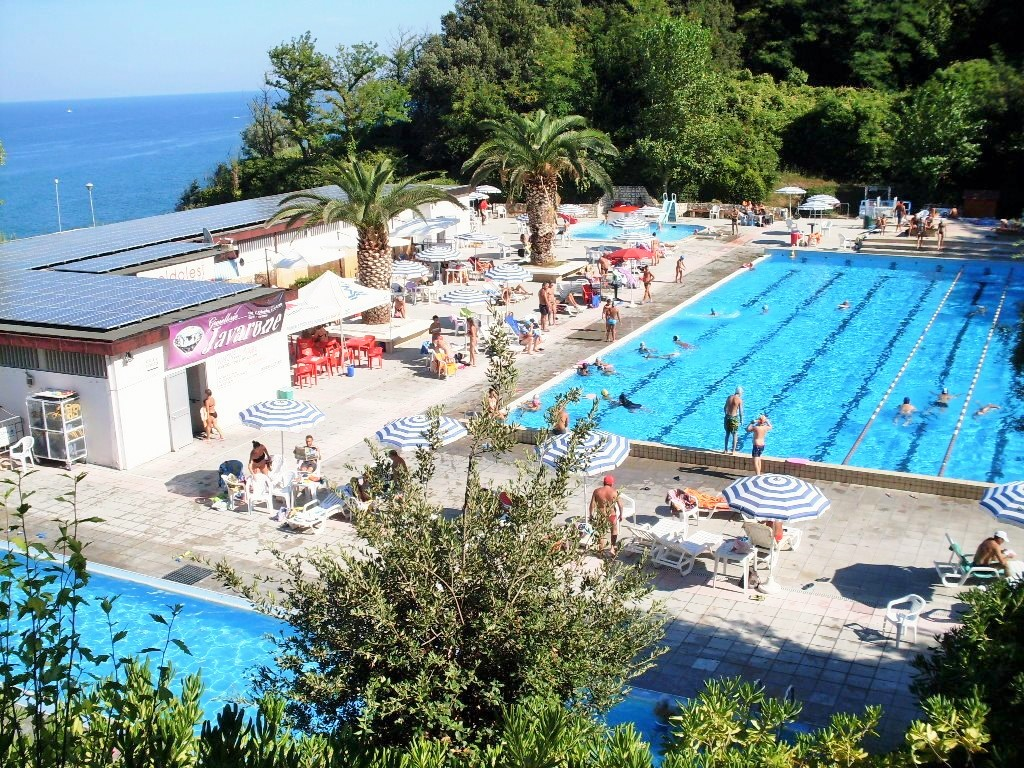 Swimming pool Passetto Ancona